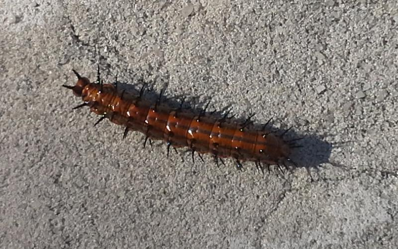 Gulf Fritillary Caterpillar Central Florida December, 2017